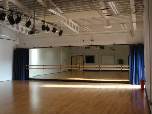 The studio built in 2008/2009 for the Thomas Aveling School.